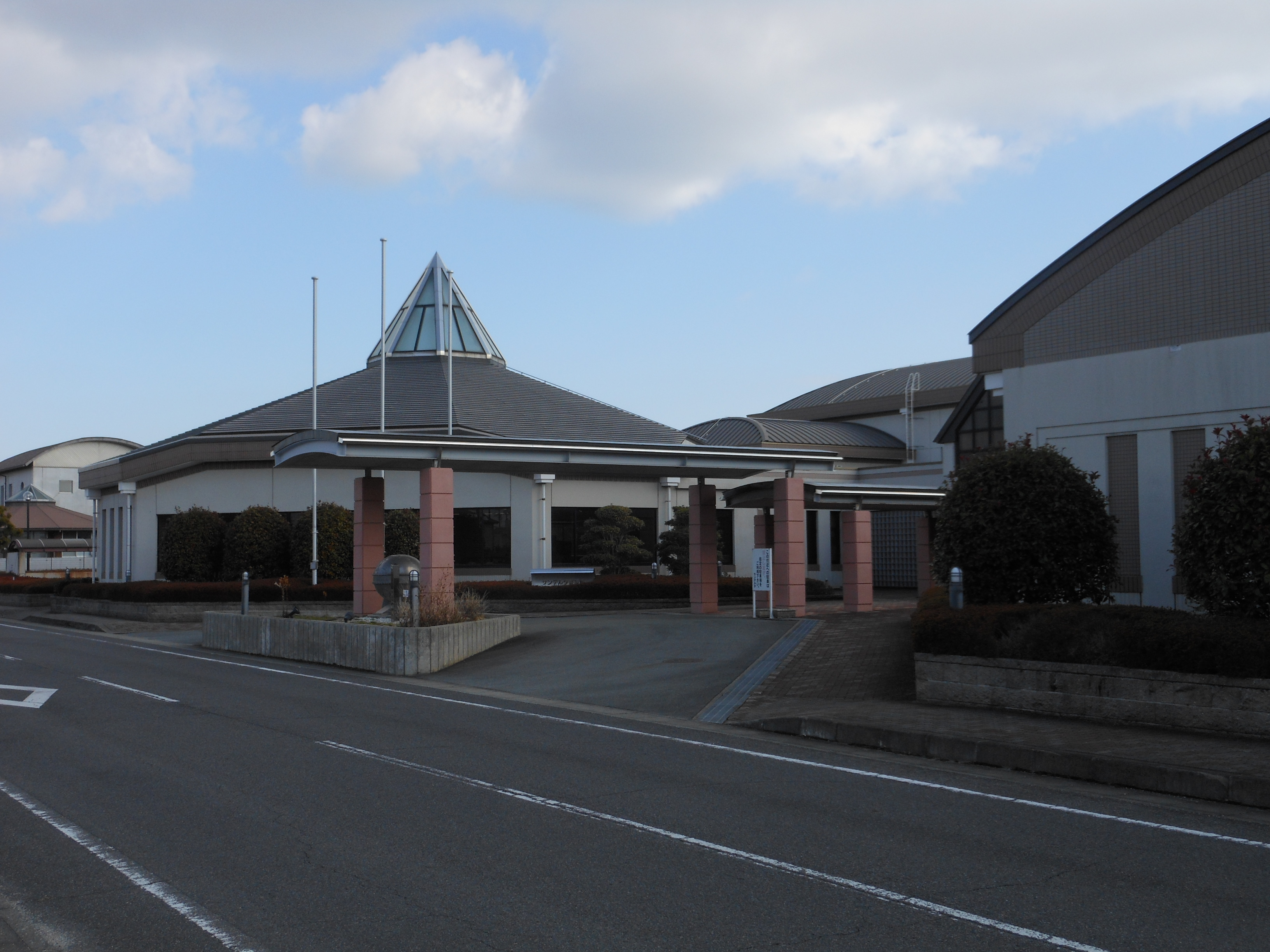 This is the Tsu City Sun Delta Karasu in Tsu, Mie, Japan. Main buiding of this photo is Tsu city Kirameki Library.